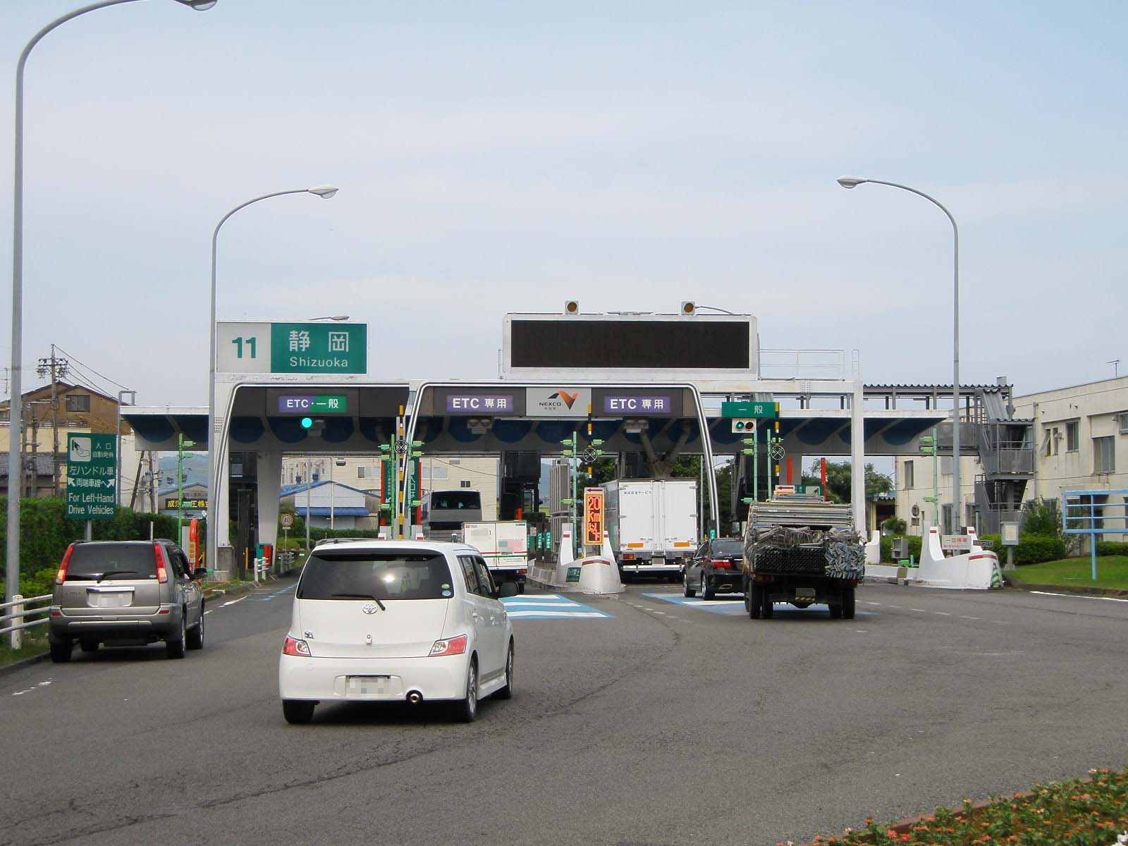 Meishin Expressway Shizuoka Interchannge Toll Gate